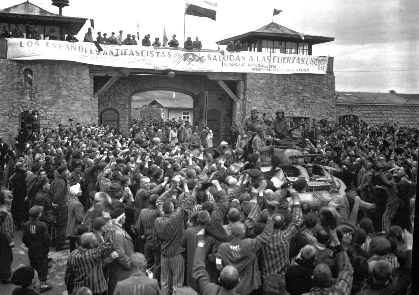 Liberated prisoners in the Mauthausen concentration camp near Linz, Austria, give rousing welcome to Cavalrymen of the 11th Armored Division. The banner across the wall was made by Spanish Loyalist prisoners. It says “LOS ESPAÑOLES ANTIFASCISTAS SALUDAN A LAS FUERZAS LIBERADORAS” ("The Spanish Antifascists greet the Liberating Forces"). The text is written in English and Russian ("Испанские антифашисты приветствуют освободителей") as well.